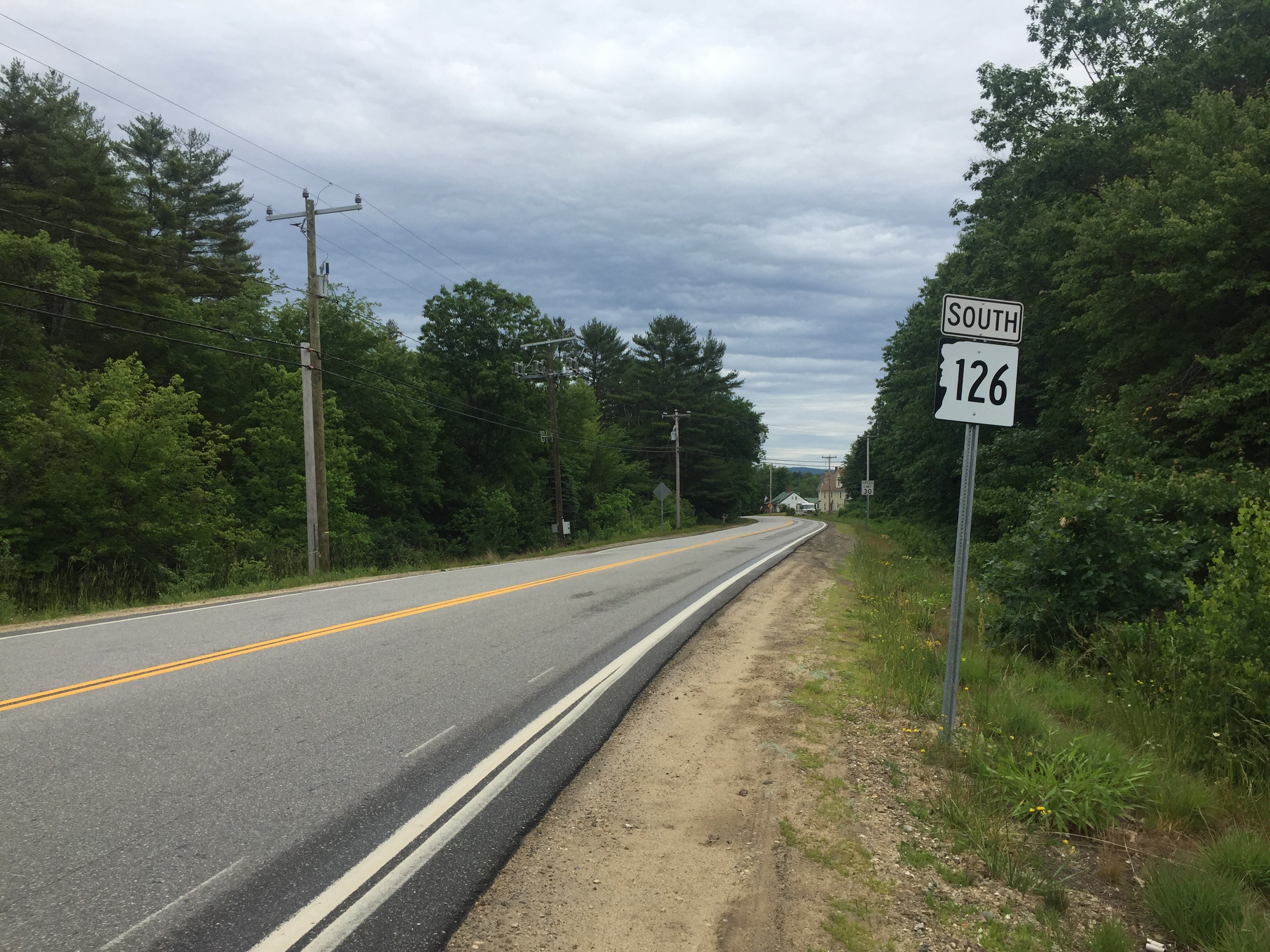 New Hampshire Route 126, Barnstead, New Hampshire